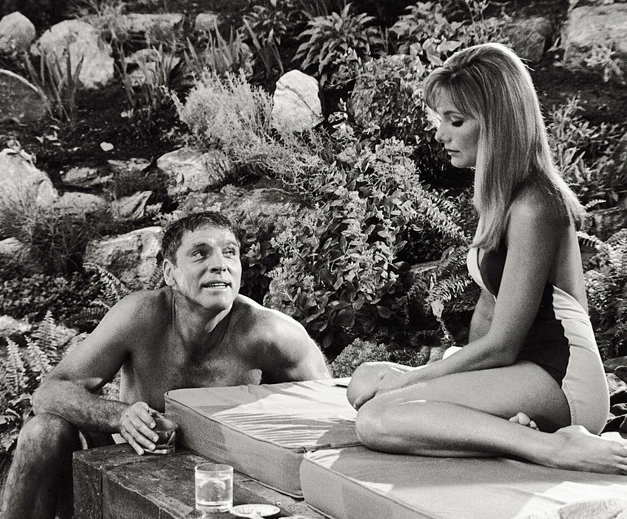 Actors Burt Lancaster and Janet Langard in a scene from the movie The Swimmer (1968); Lancaster, as Ned Merrill, is crouched at Janet Landgard (Julie Ann Hooper) feet. USA, 1968.